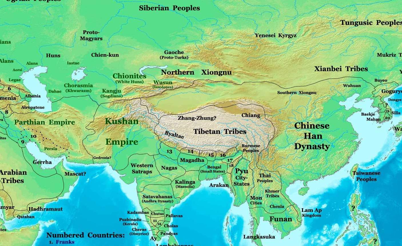 Part of Eastern Hemisphere in 200 AD (Especially for Parthia, India and China)